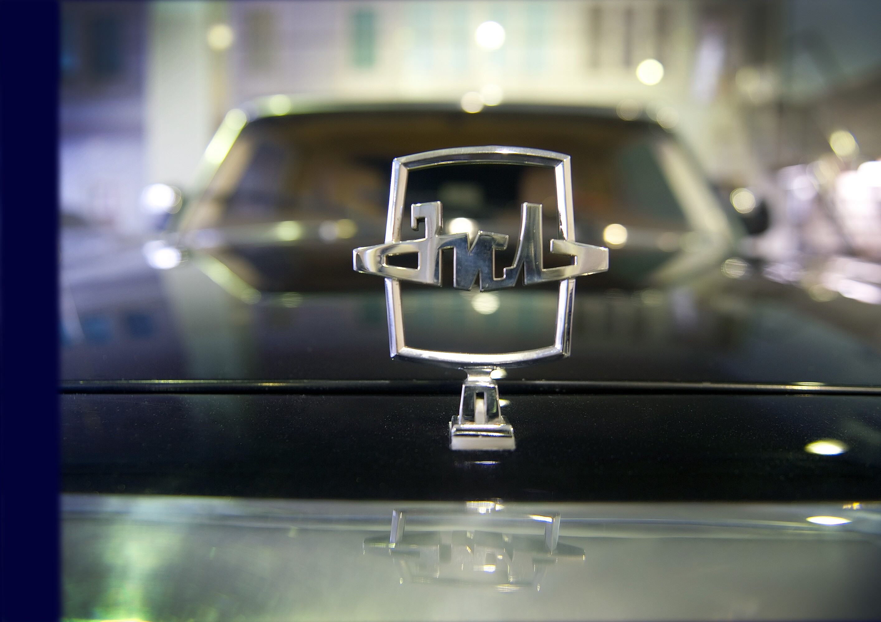 ZIL-4112R Hood Badge